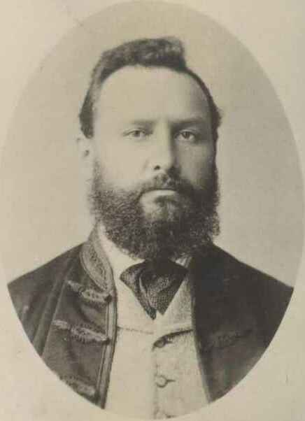 Josip Vošnjak (1834-1911), Slovenian politician and author